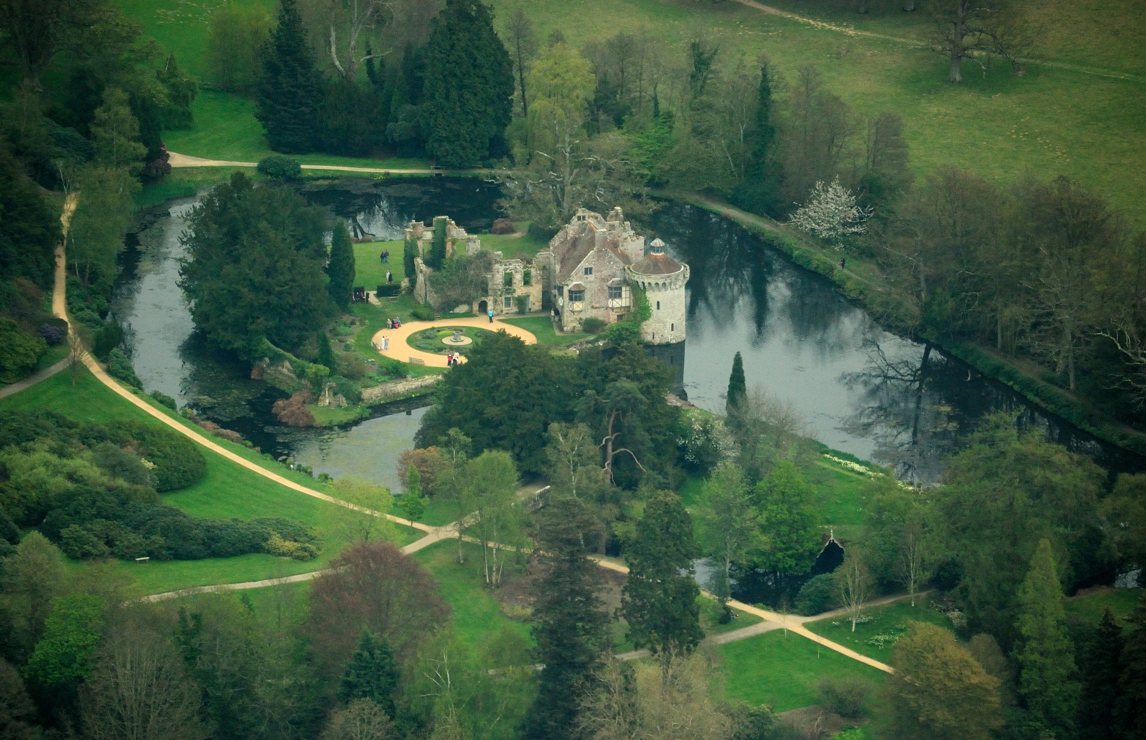 Aerial view of Scotney Castle near Lamberhurst, Kent, England. Nikon D60 f=135mm f/5 at 1/1600s ISO 800. Processed using Nikon ViewNX 1.5.2 and GIMP 2.6.6.